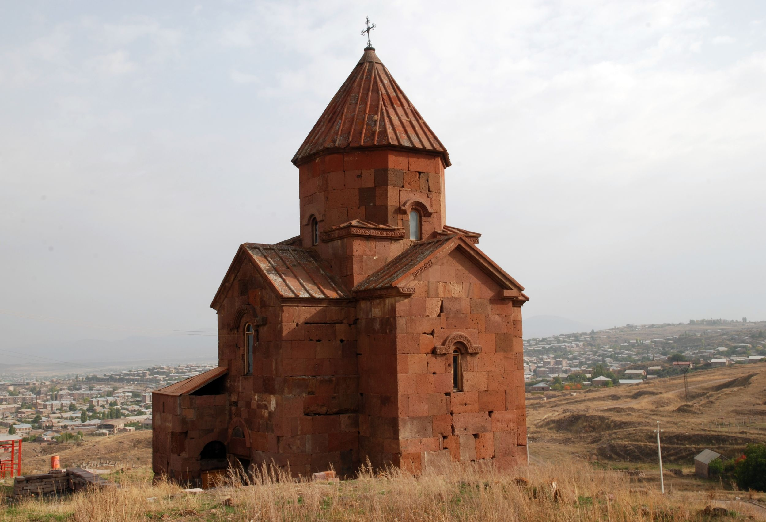 Lmbatavank from northwest